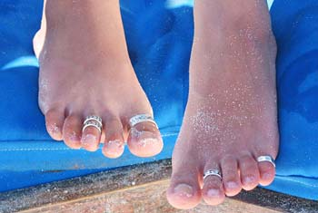 Toe ringsEesti: Varbasõrmused